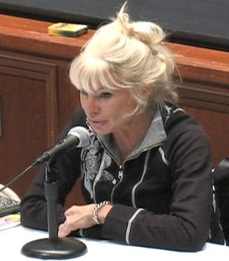 Bree Walker at 2008 Common Cause forum in Pasadena